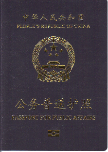 PRC Passport for Public Affairs with Biometric Chip